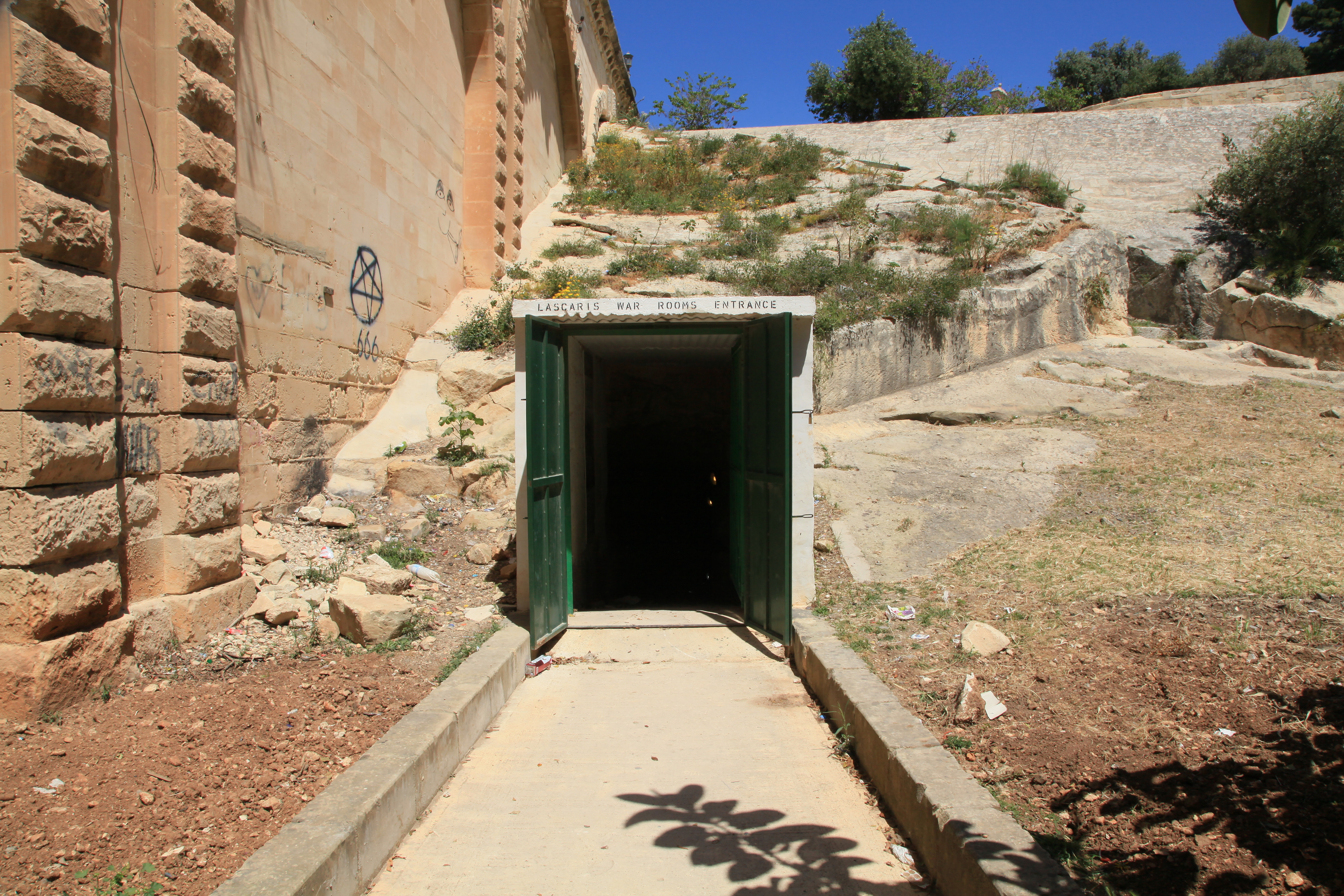 Entrance to the Lascaris War Rooms, St. James Ditch in Valletta, Malta